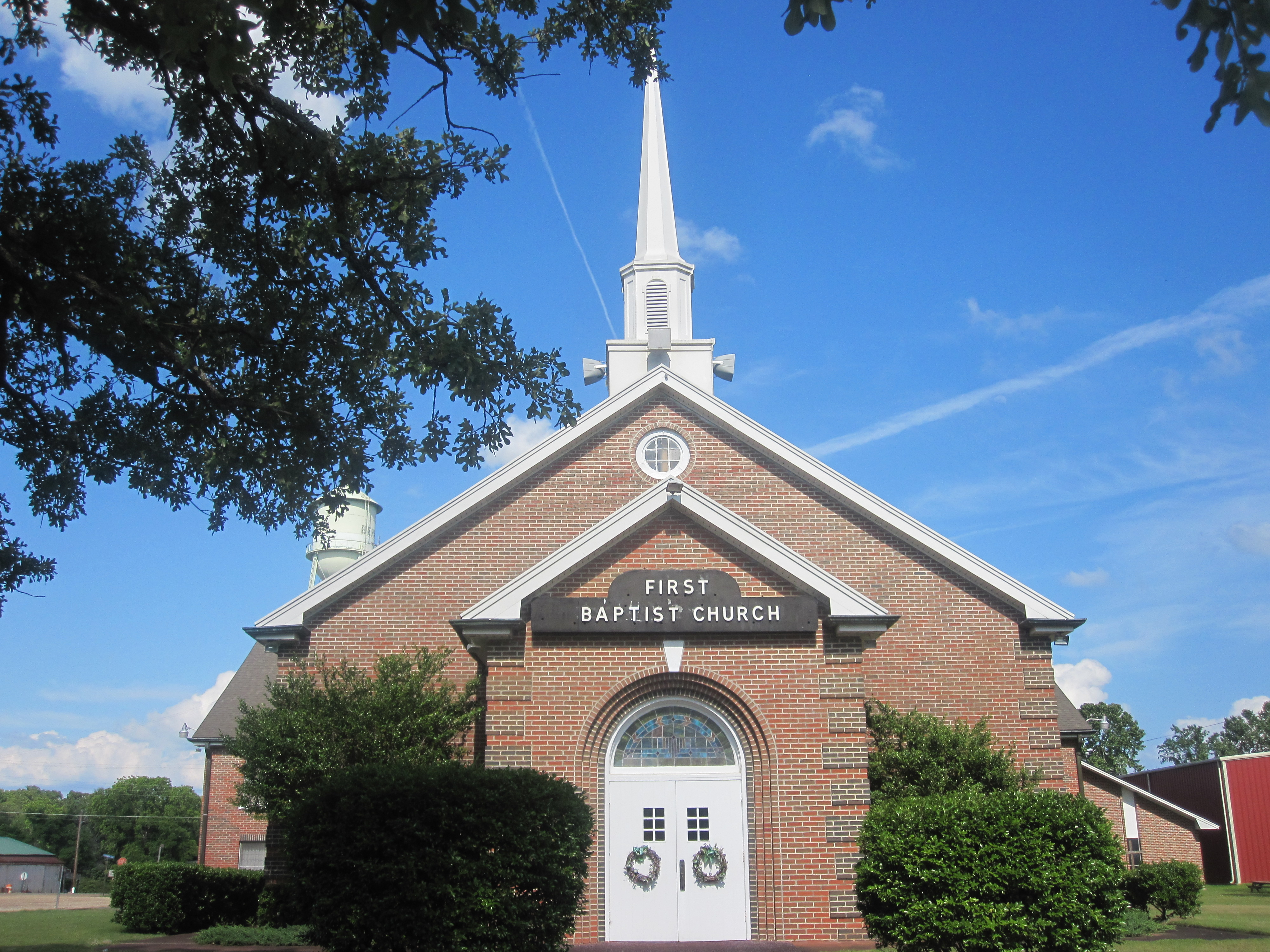 I took photo with Canon camera.